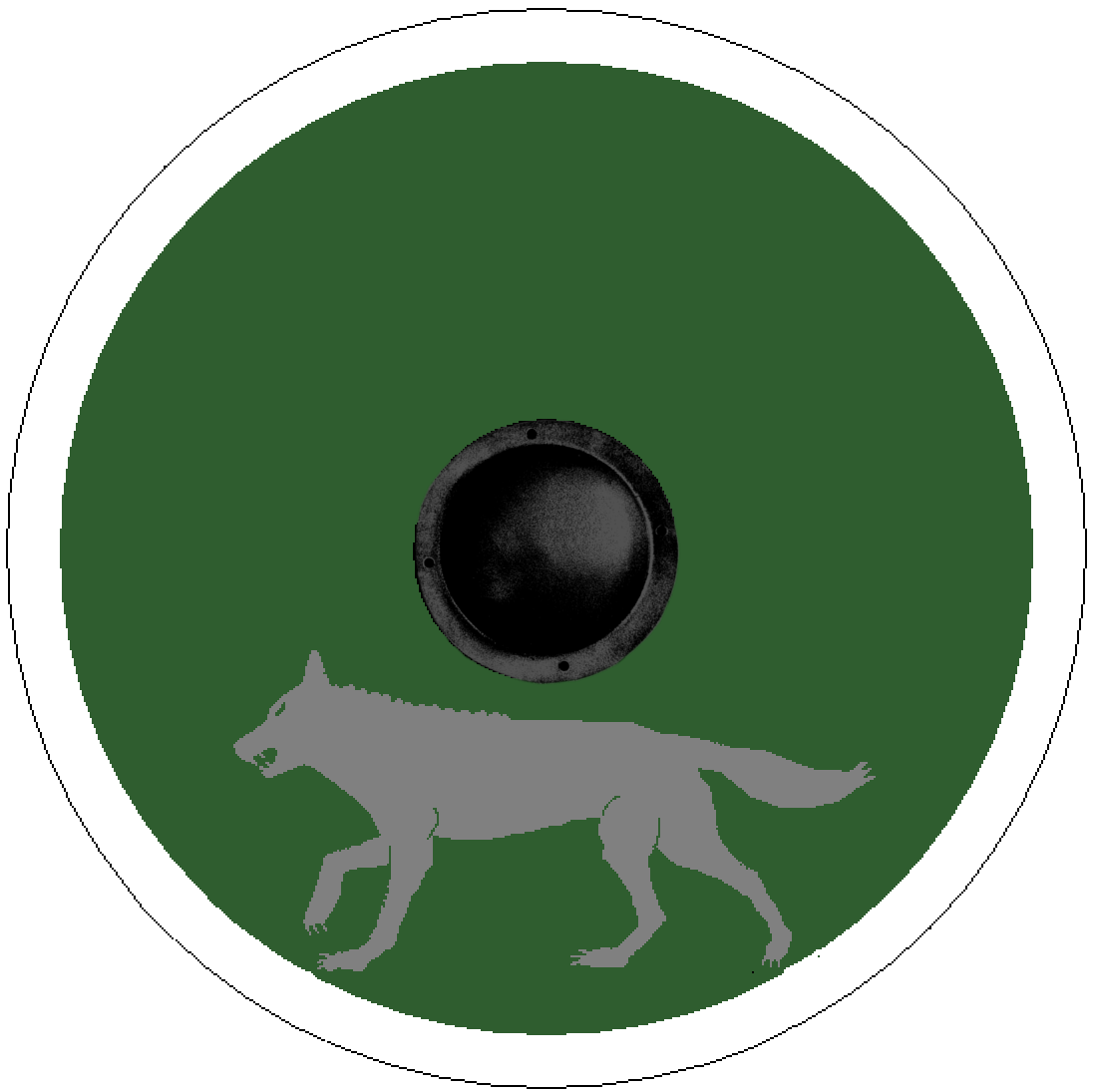 Shielpattern of Prima Iulia Alpina (Legio I Iulia Alpina) about AD 400; one of the Pseudocomitatenses unit in the Magister Peditum's infantry roster, it is also assigned to his Italian command under the name Prima Iulia. Source Notitia Dignitatum Or. V